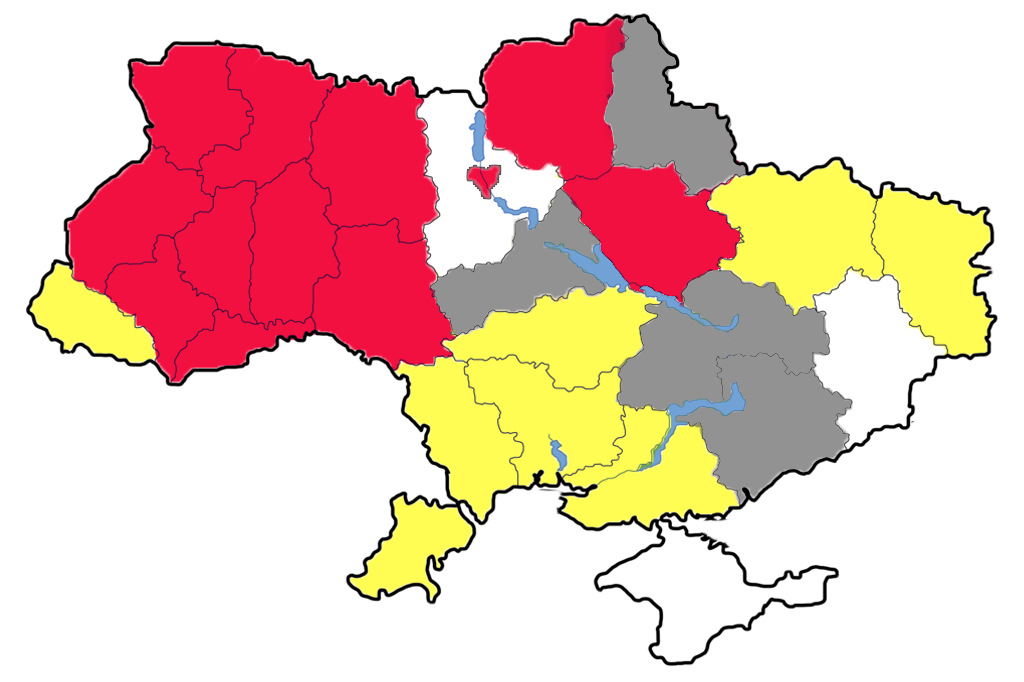 Protests in regions Ukraine at the 26th January 2014. Protesters control state administration. Attempts assault State Administrations Protests near State Administrations